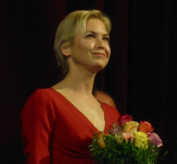 Actress Renée Zellweger at the 2009 Berlin Film Festival